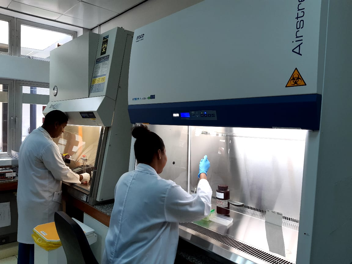 Assistance to Seychelles for diagnostics of COVID-19 Senior Lab Technician Mr Gary Sifflore (Standing) and Lab Technician Miss Irinie Gill (seated) preparing solutions. 24 July 2020 The International Atomic Energy Agency (IAEA) is dispatching equipment to countries around the world to enable them to use a nuclear-derived technique to rapidly detect the coronavirus that causes COVID-19. This emergency assistance is part of the IAEA's response to requests for support from Member States in controlling an increasing number of infections worldwide. NOTICE: IMAGS ARE OF LOW RESOLUTION AND NOT IDEAL FOR PRINTING OR PUBLICATION PURPOSES.